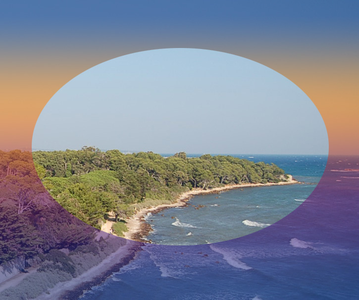 An example of application of an adjustment layer in an image editing program. (The photo is from the island St. Honorat outside Cannes, France.)